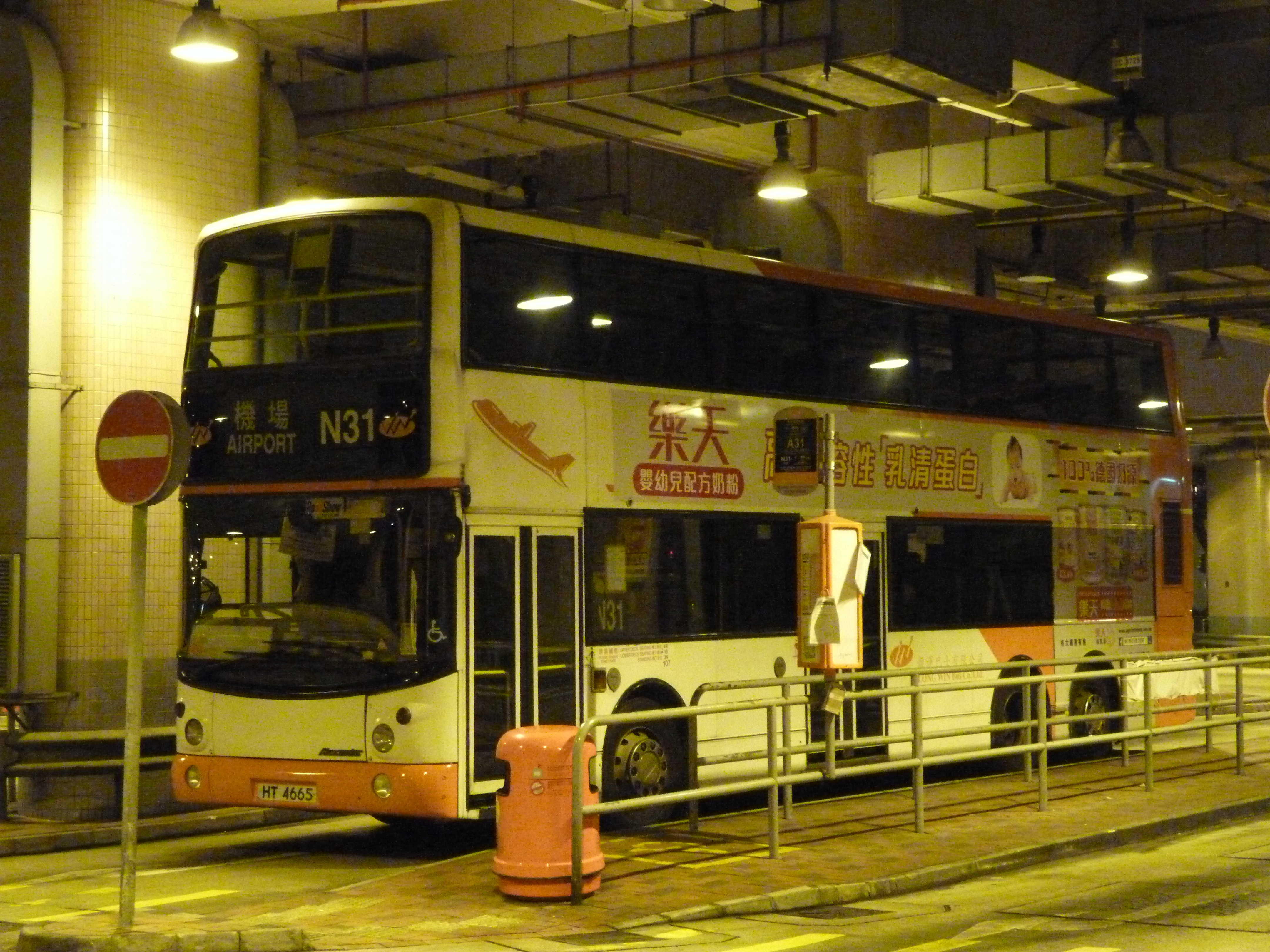 Long Win Bus Route N31 (Tsuen Wan (Discovery Park) Bus Terminus)中文（香港）: 龍運巴士N31線 (荃灣（愉景新城）巴士總站)